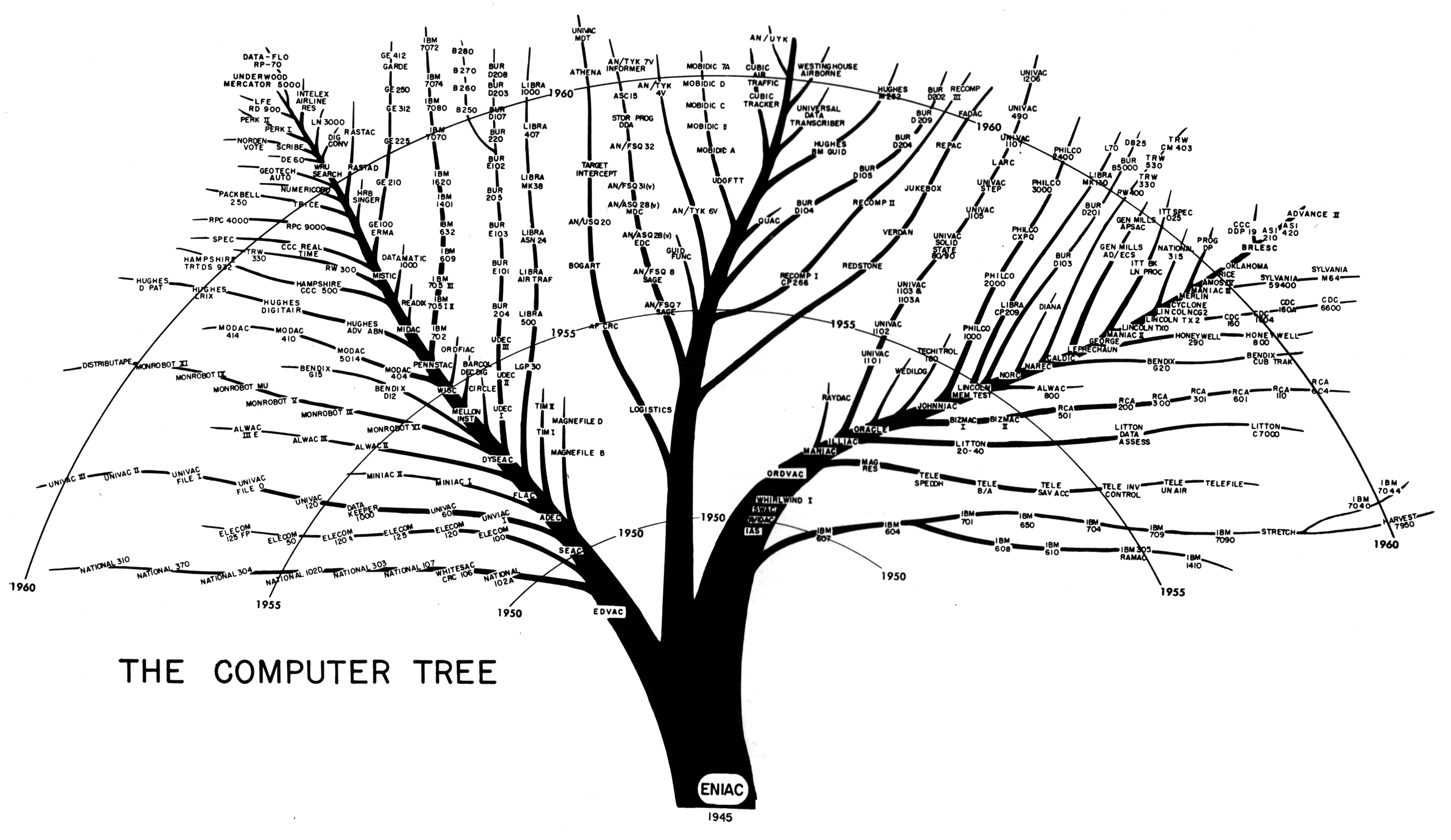 Tree showing evolution of computers used by US Army from the ENIAC. ELECTRONIC COMPUTERS WITHIN THE ORDNANCE CORPS CHAPTER VII -- THE COMPUTER TREE The computer tree shows the evolution of electronic digital computers. The automatic computing and data processing industry is a direct outgrowth of research, sponsored by the U.S. Army Ordnance Corps, which produced the ENIAC, the world's first electronic digital computer. This industry has grown to a multi-billion dollar activity that has penetrated every profession and trade in government, business, industry, and education. In the accompanying graphical representation of the computer tree the trunk rests on the ENIAC. The serial computers, represented by EDVAC, and the parallel computers, represented by the ORDVAC, are shown as separate limbs. This separation tends to distinguish the business computers on the left limb from the scientific computers on the right limb. The computers which were developed specifically to meet military needs are shown on the center limb. Manufacturers have entered the electronic computer field at different times, shown as various branches. Only university and government sponsored computers are shown along the limbs. The radial distance from the ENIAC is an approximate indication of the year each computer was developed, constructed, or placed in operation.